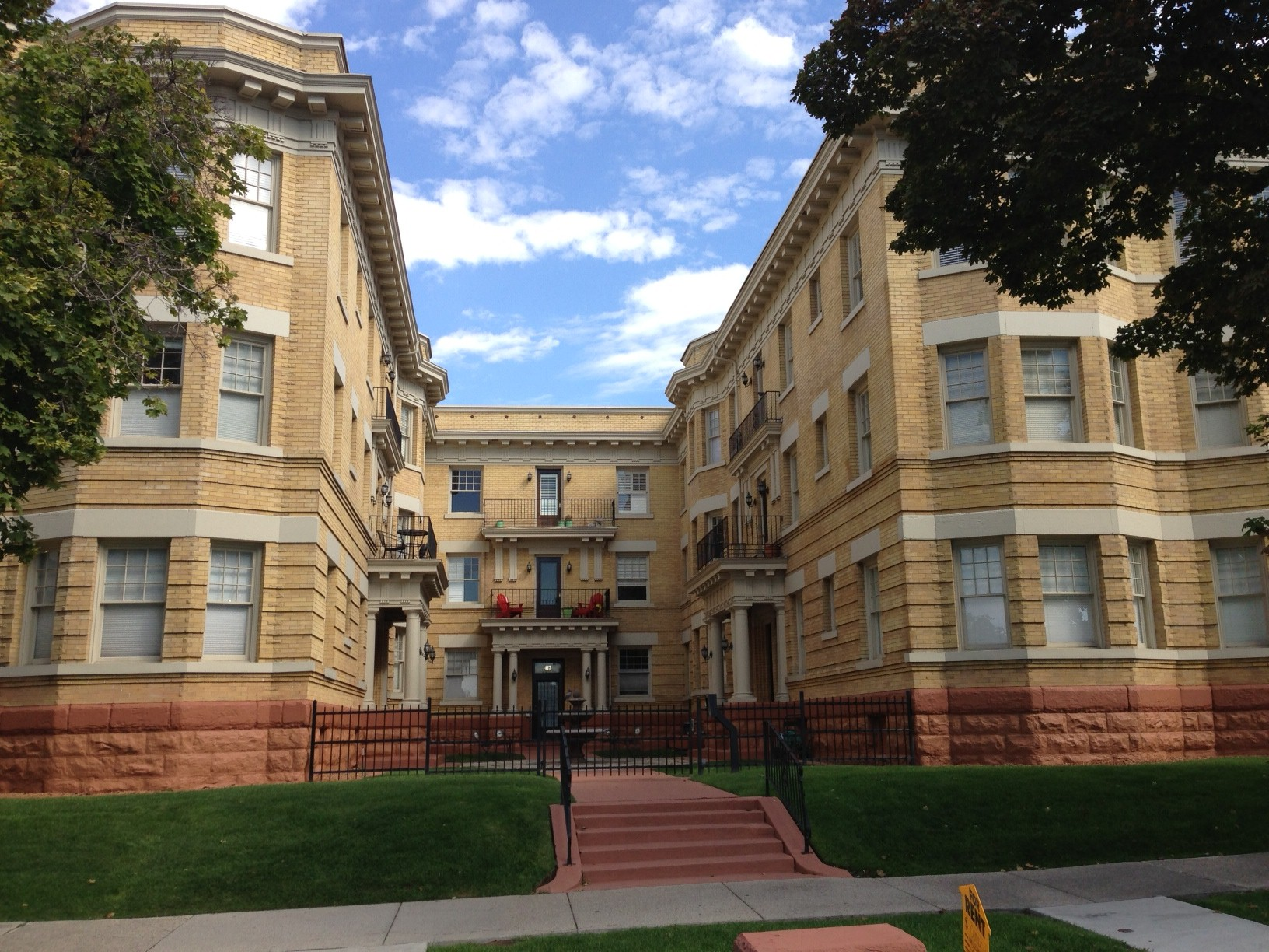 Ivanhoe Apartments, 417 E. 300 South Central City